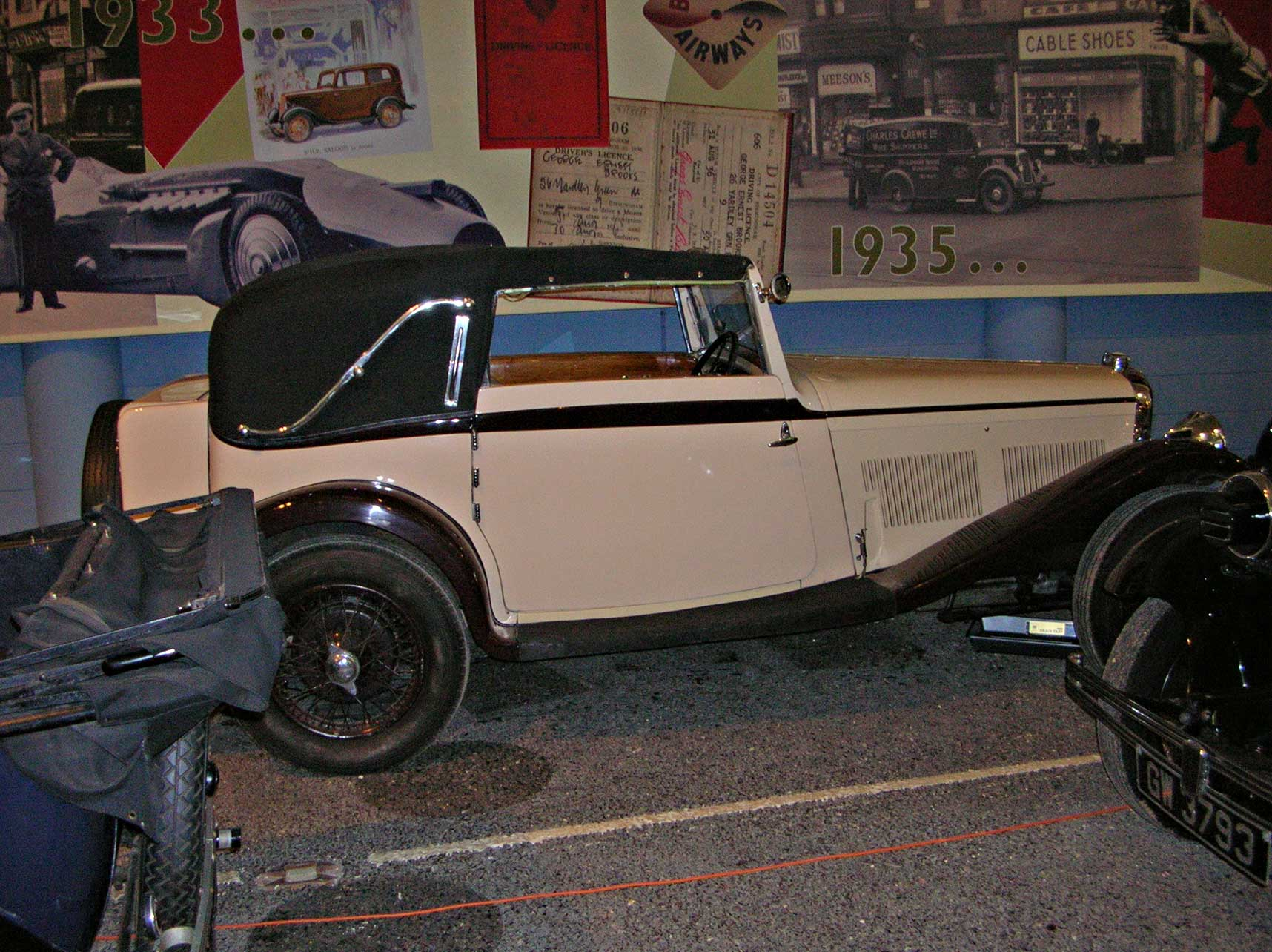 1930 Rover Meteor drophead coupé body by Corsica Gaydon